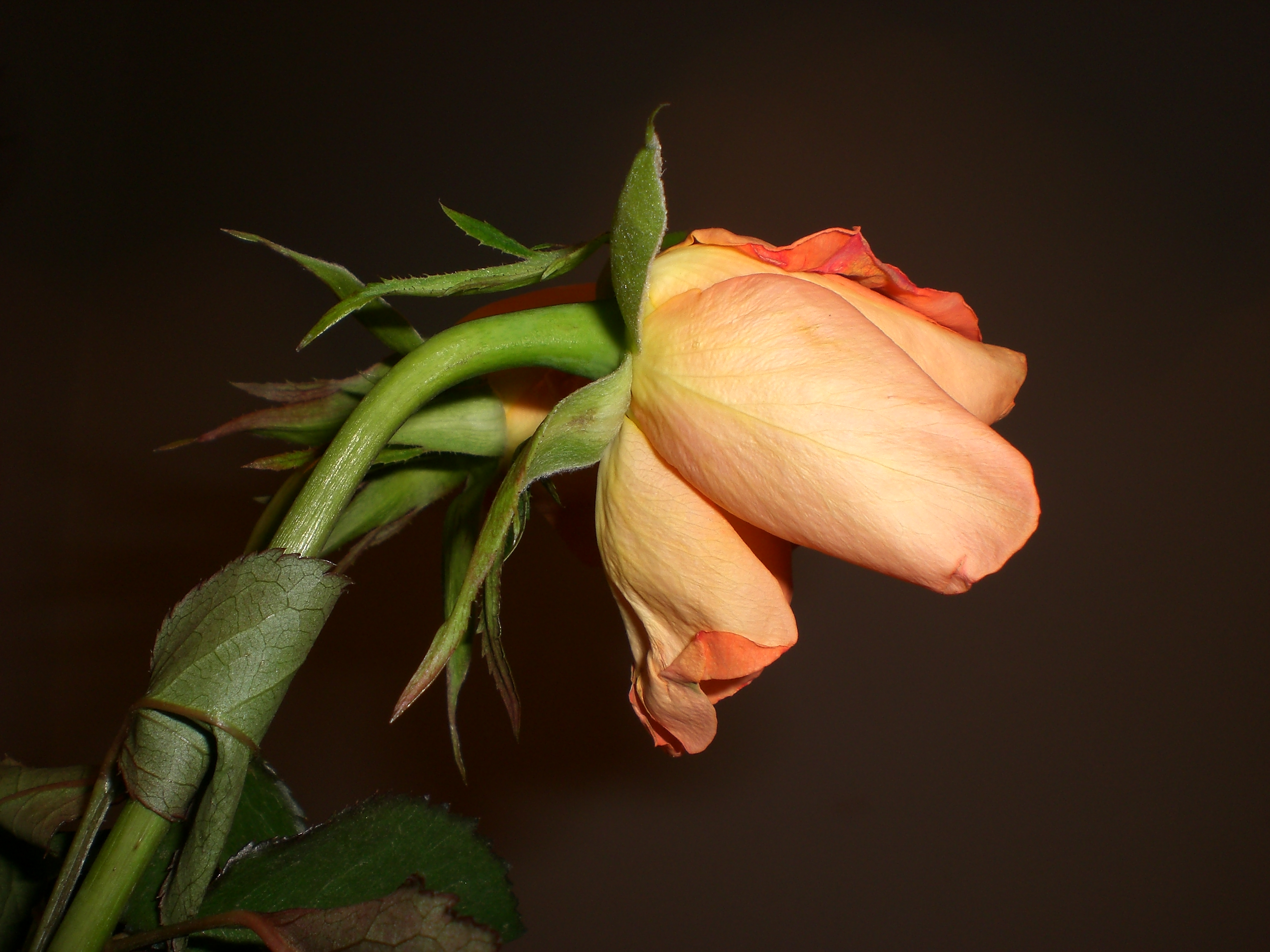 Wilted rose